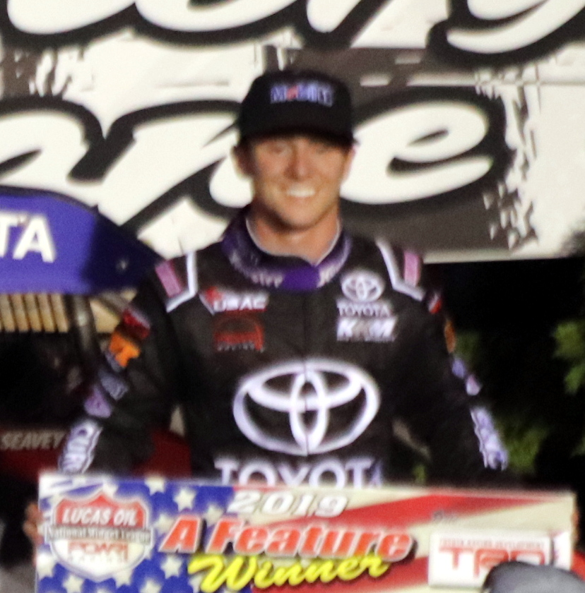 Logan Seavey in victory lane after winning in his POWRi midget car at Angell Park Speedway.